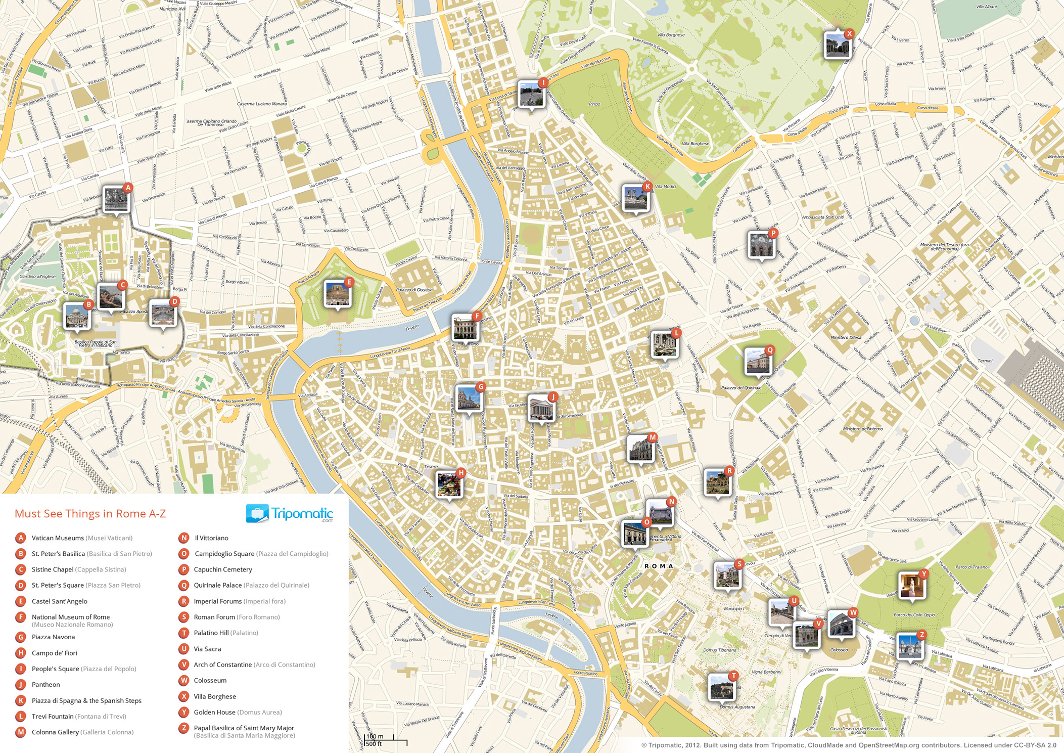 Printable tourist map showing the main attractions of Rome